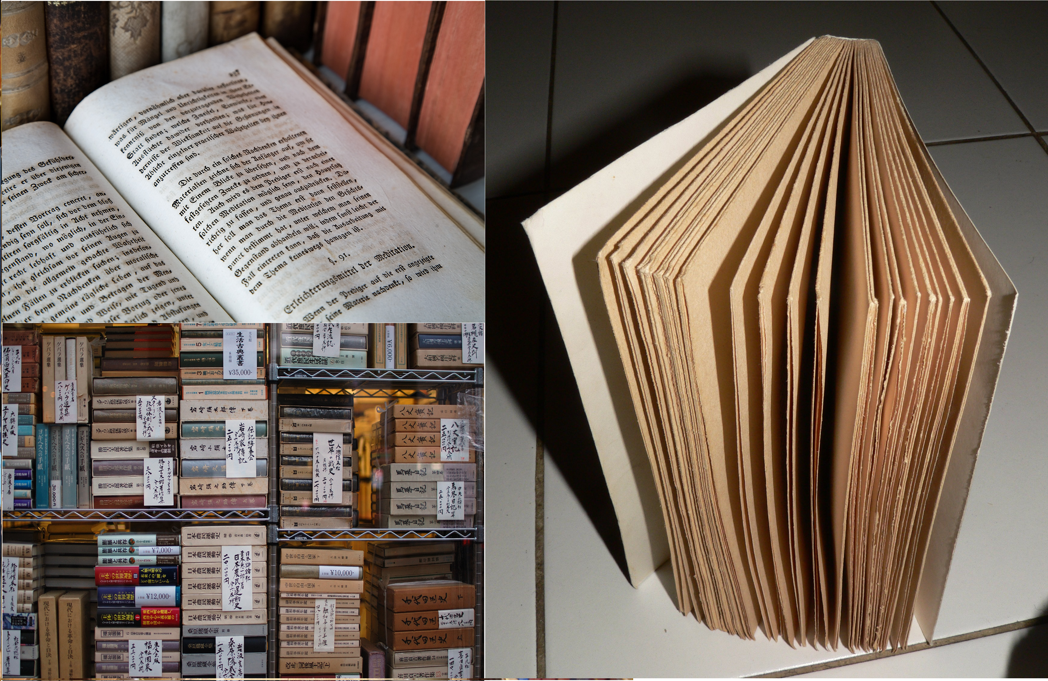 A collage of book images